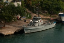 Dominican Republic Navy GC-110, Sirius at La Romana, Dominican Republic